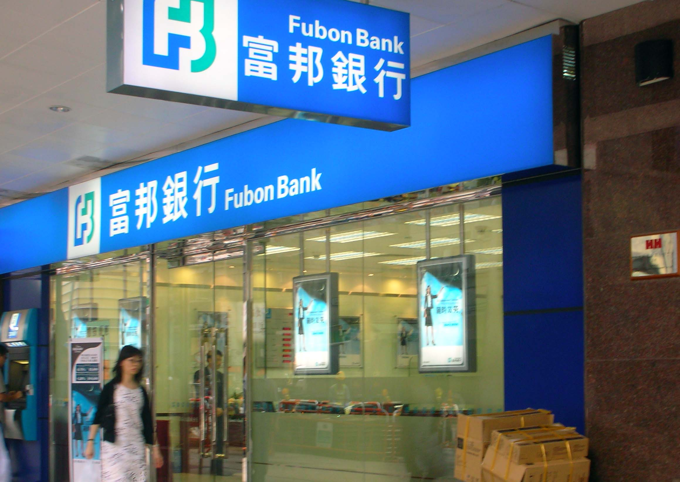 A branch of Fubon Bank, located at Wan Chai, Hong Kong 富邦銀行位於香港灣仔胡忠大廈的分行